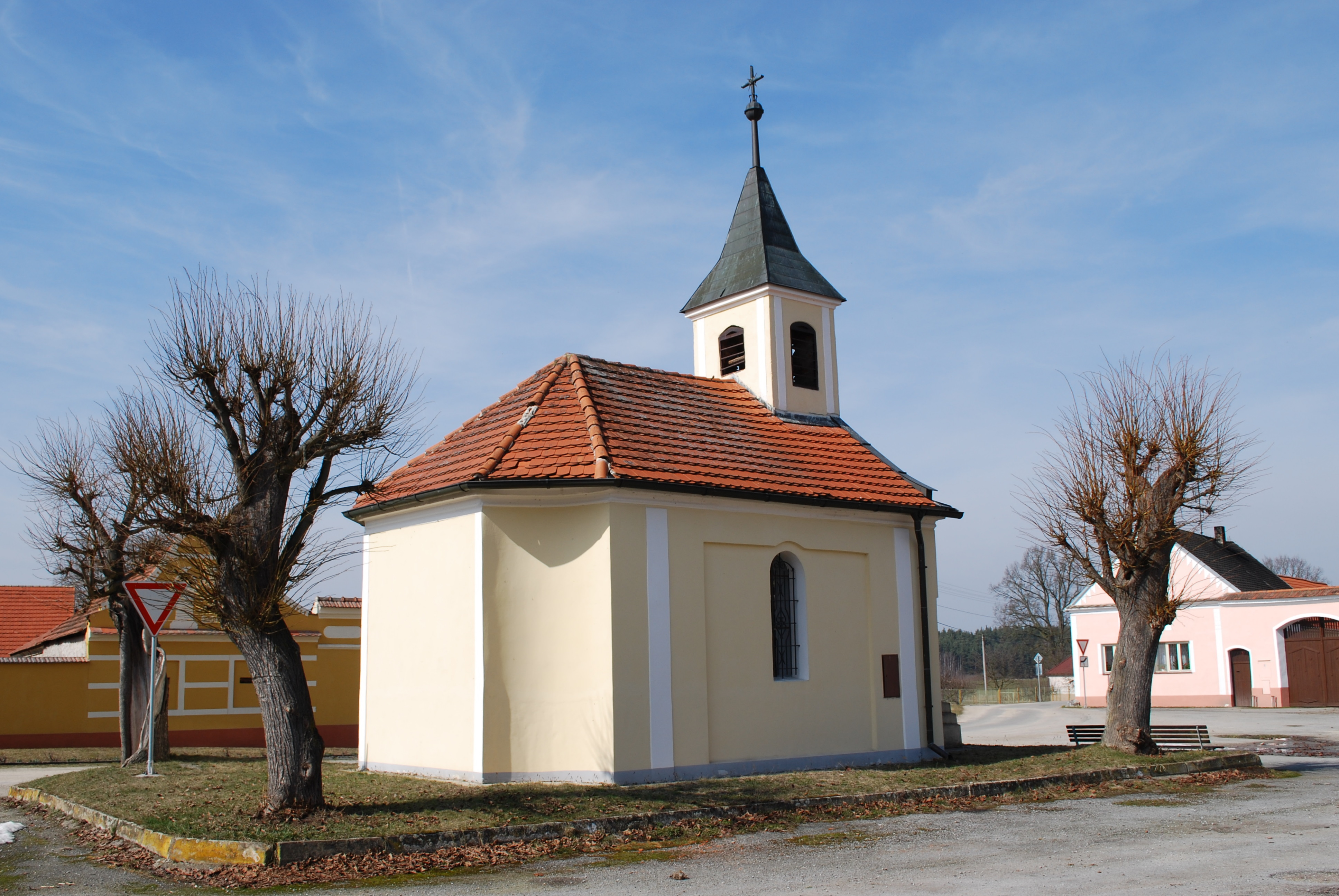 Ponědrážka village in Jindřichův Hradec District, Czech republic. Chapel This photograph was taken within the scope of the 'Czech Municipalities Photographs' grant.